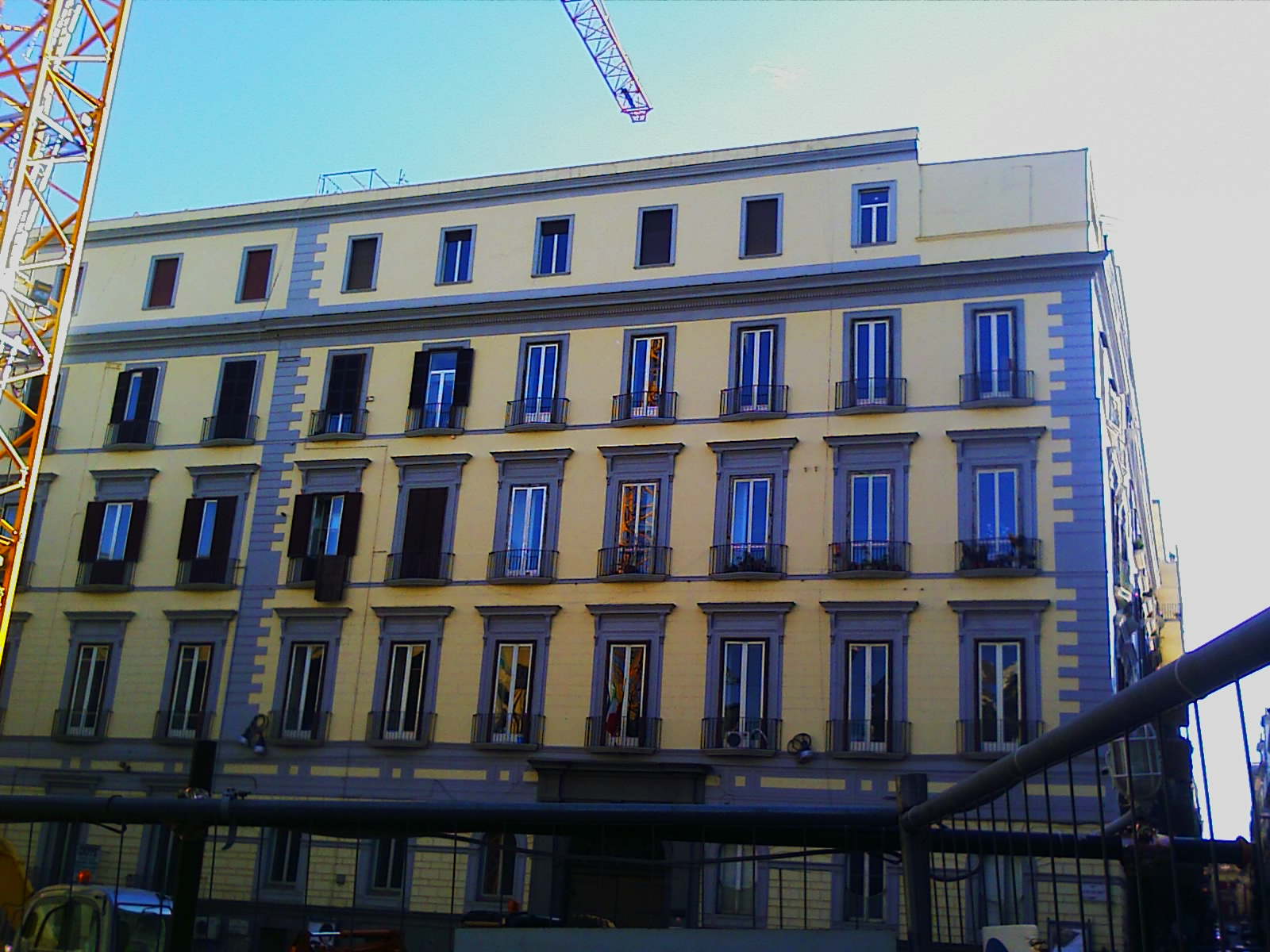 Facade